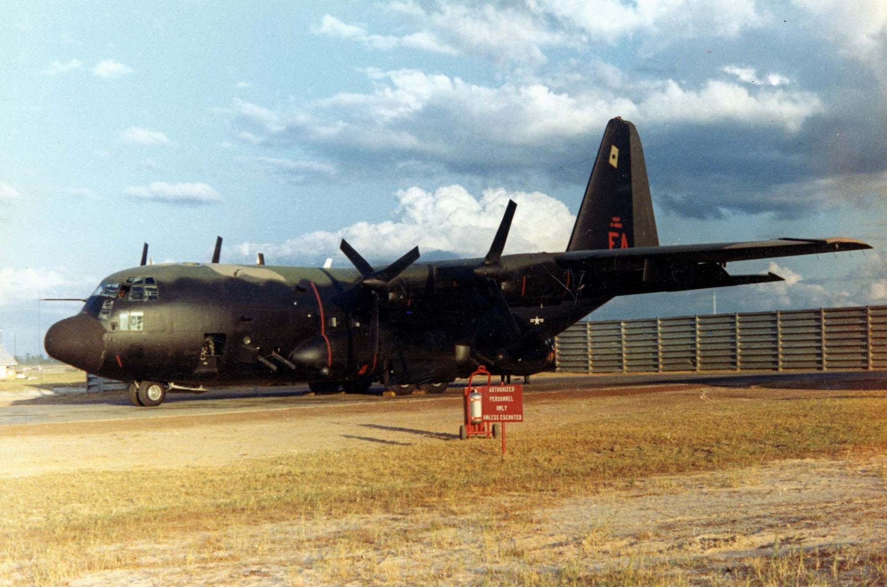 A U.S. Air Force Lockheed AC-130A of the 16th Special Operations Squadron, 8th Tactical Fighter Wing at Ubon Royal Thai Air Force Base in March 1969. Ubon RTAFB was the forward operating location for the 16th SOS home-based at Nha Trang Air Base, South Vietnam.